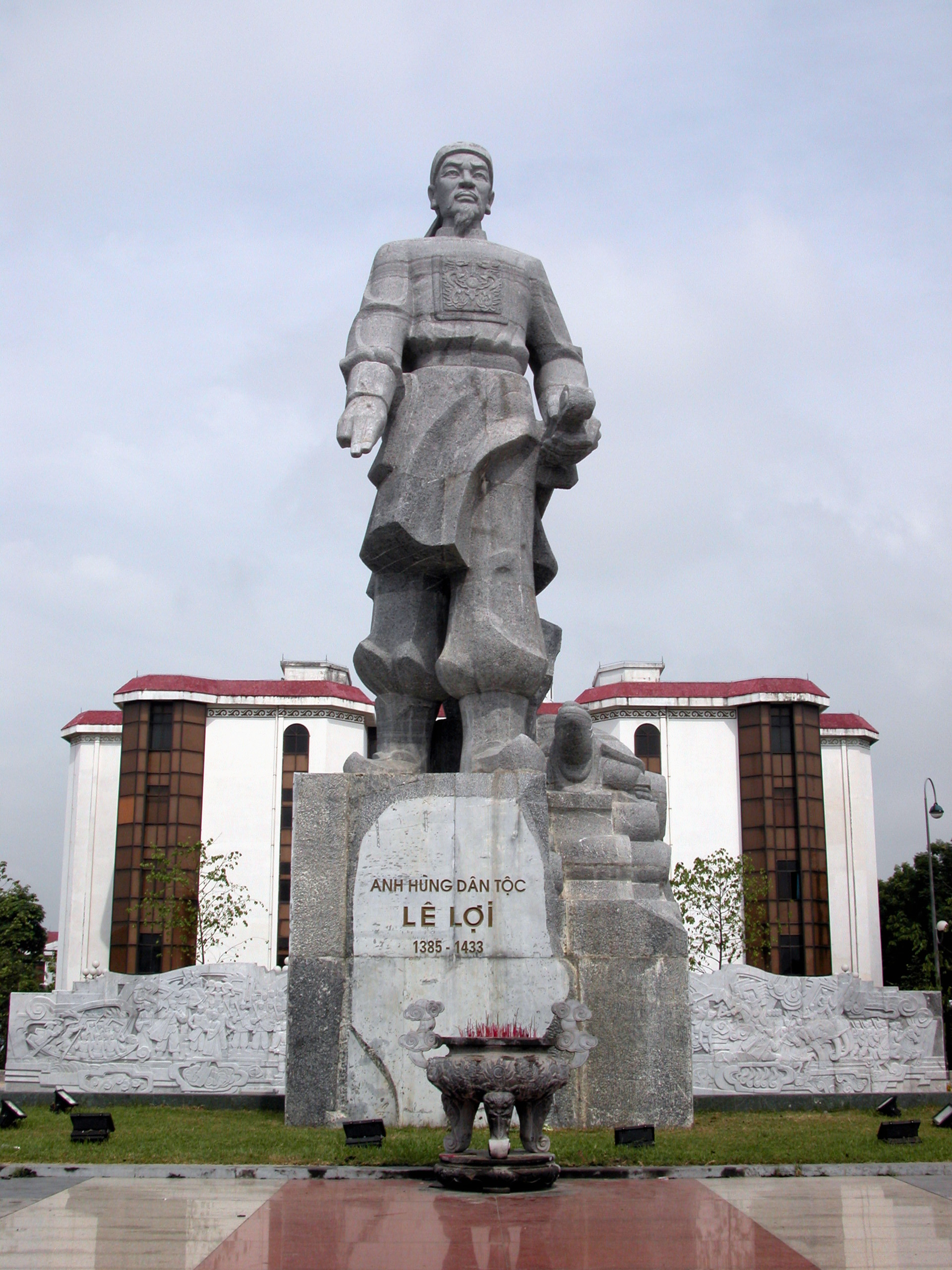 Le Loi statue in front of the City Hall of Thanh Hoa province.